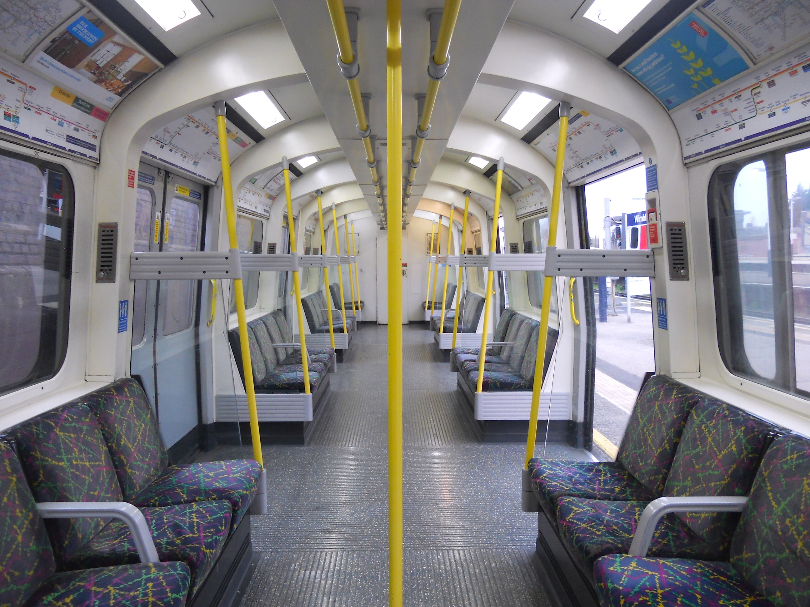 The interior of a London Underground C Surface Stock train